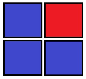 squares for a focal point coordination game